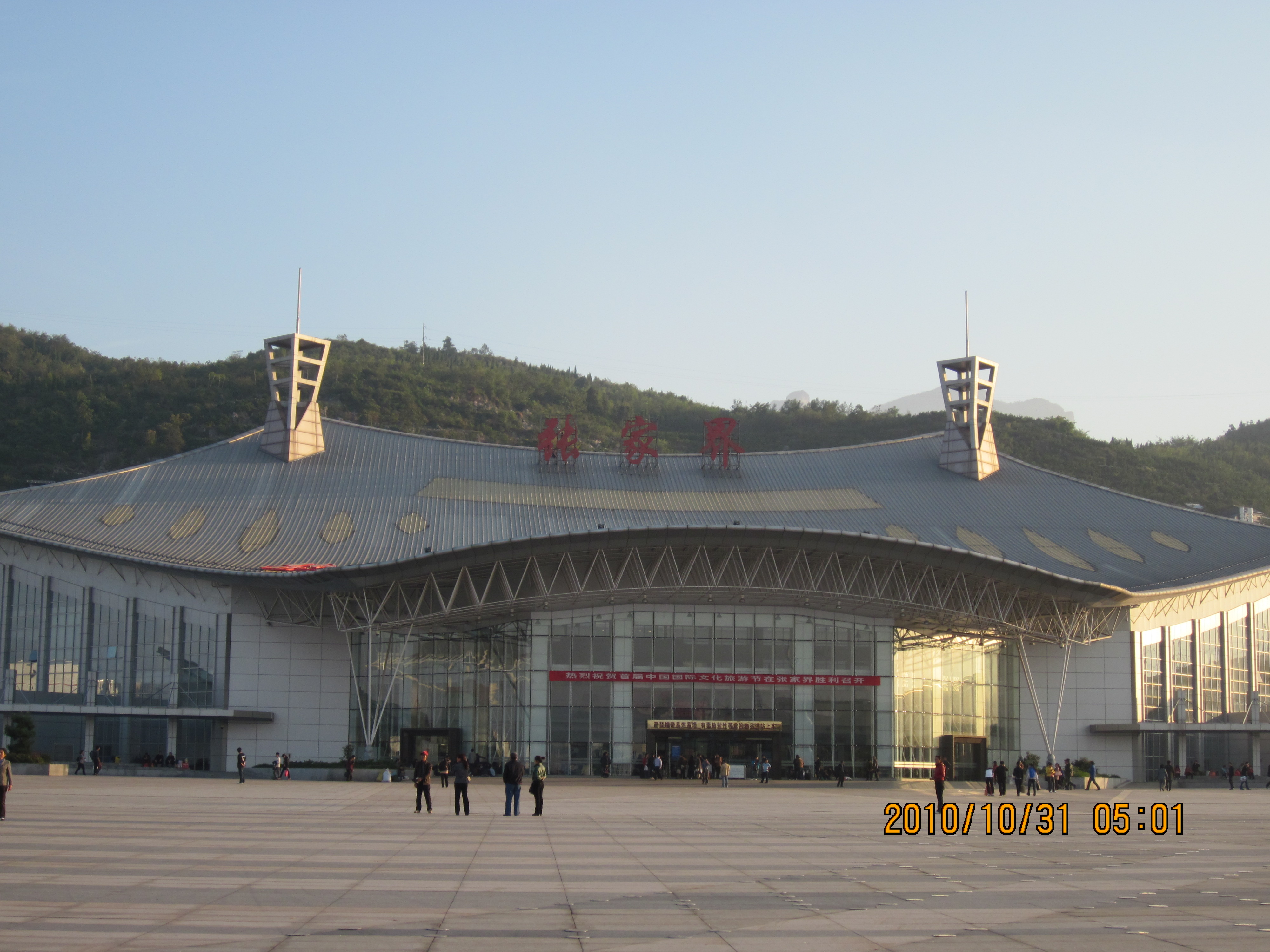 Zhangjiajie Station.